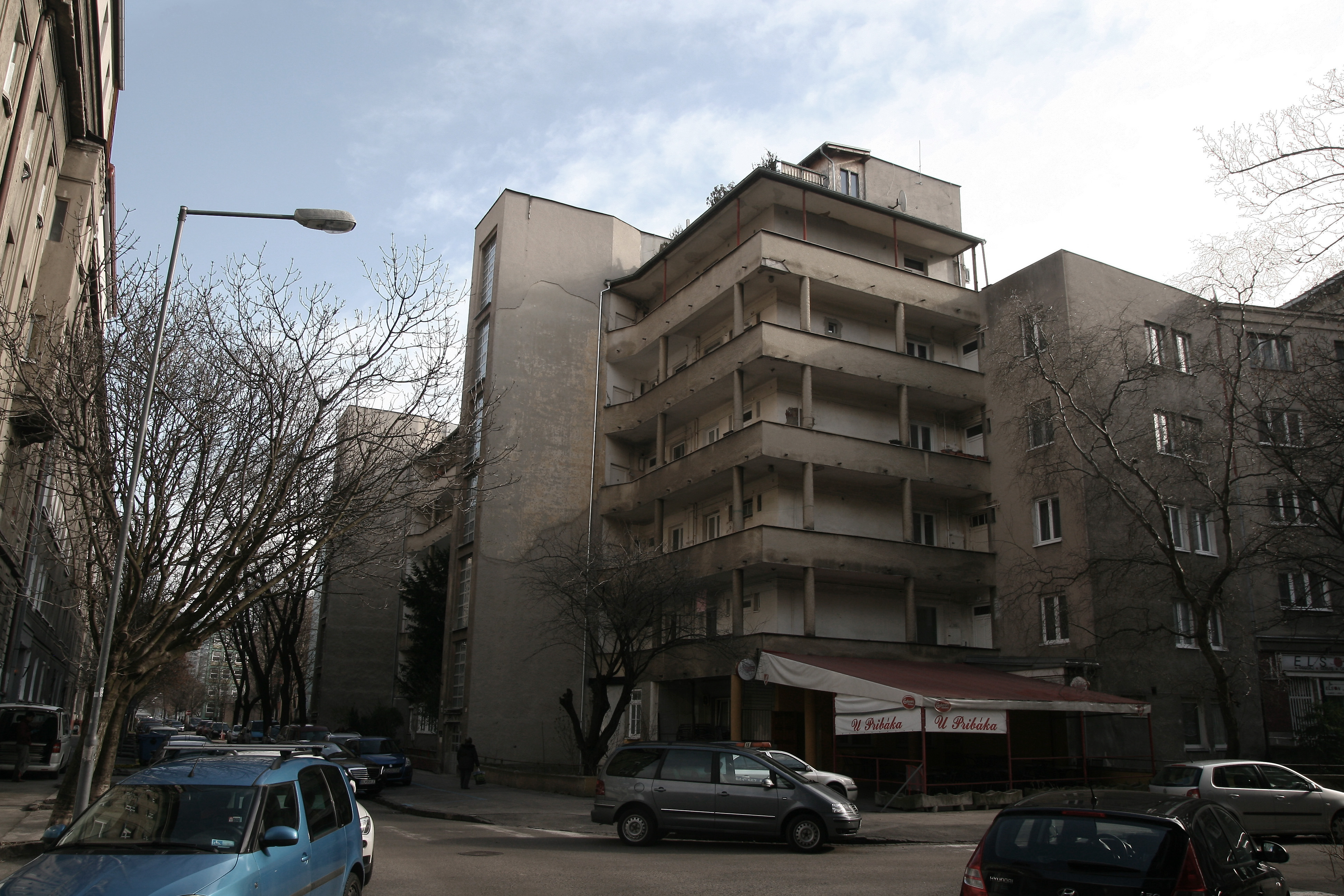 Gallery house, social housing by Klement Šilinger, 1931, Bratislava, Slovakia.